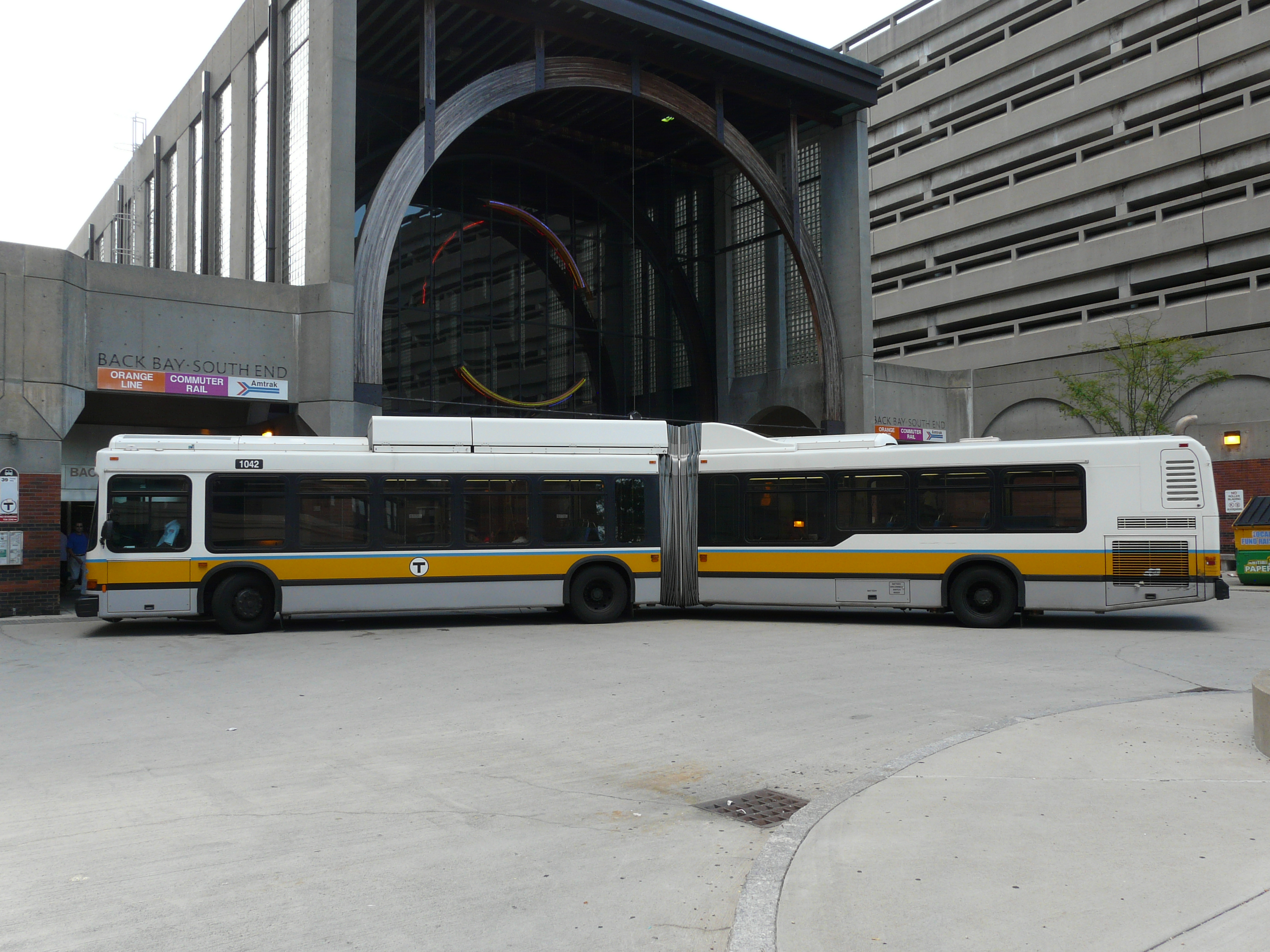 Articulated bus at Back Bay Station in Boston, Massachusetts